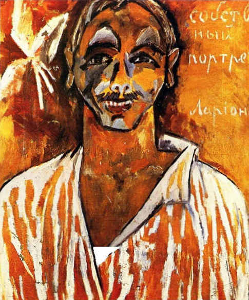 Mikhail Larionov Self-Portrait. Ca 1910. Oil on canvas, 104x89 cm. The A.K.Larionova-Tomilina collection, Paris. Uploaded from